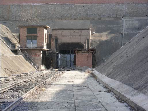 The tunnel exit of No.53 Station, Beijing Subway, China